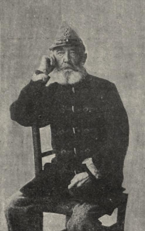 Miklós Bethlen (journalist)